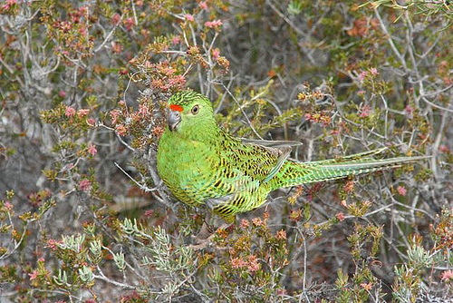 Western Ground Parrot (Pezoporus flaviventris)